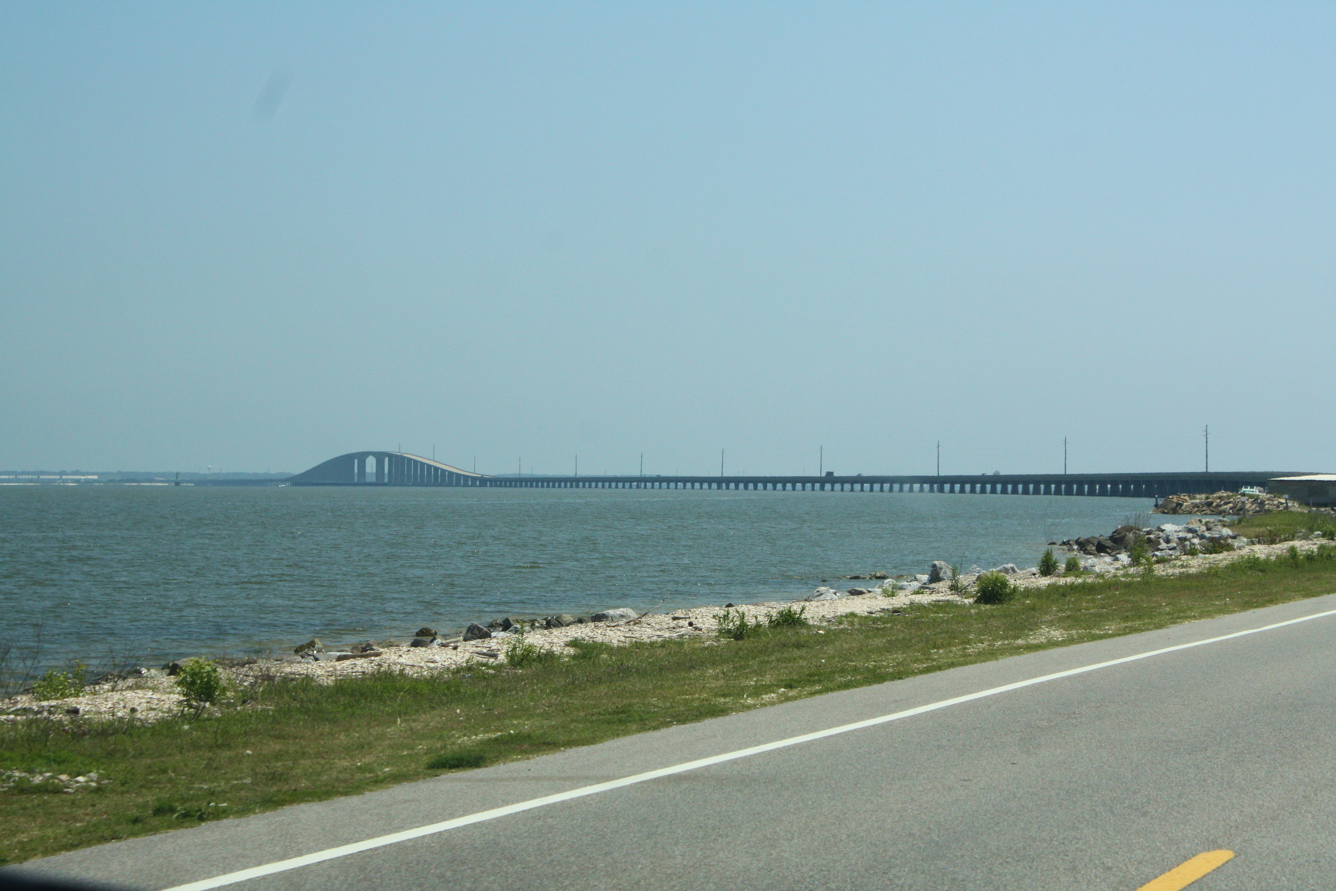 View of the Gordon Persons Bridge on Alabama State Route 193, north of Dauphin Island, Mobile County, Alabama, United States.